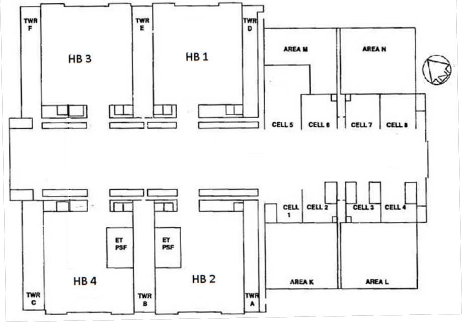 A graphic displaying the layout of the Vehicle Assembly Building at NASA's Kennedy Space Center.